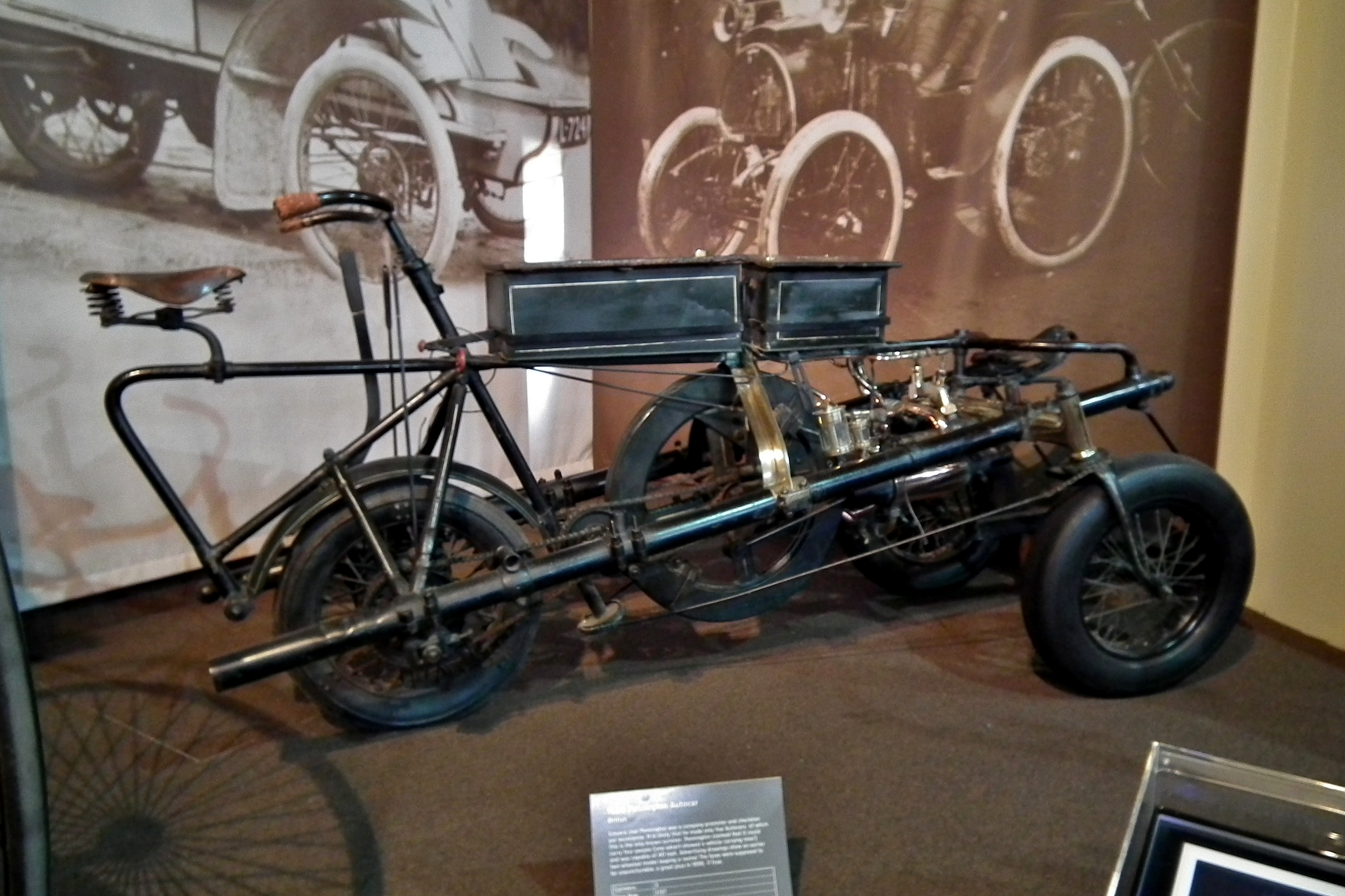 1896 Pennington Autocar. Taken at the National Motor Museum in Beaulieu, Hampshire, England.